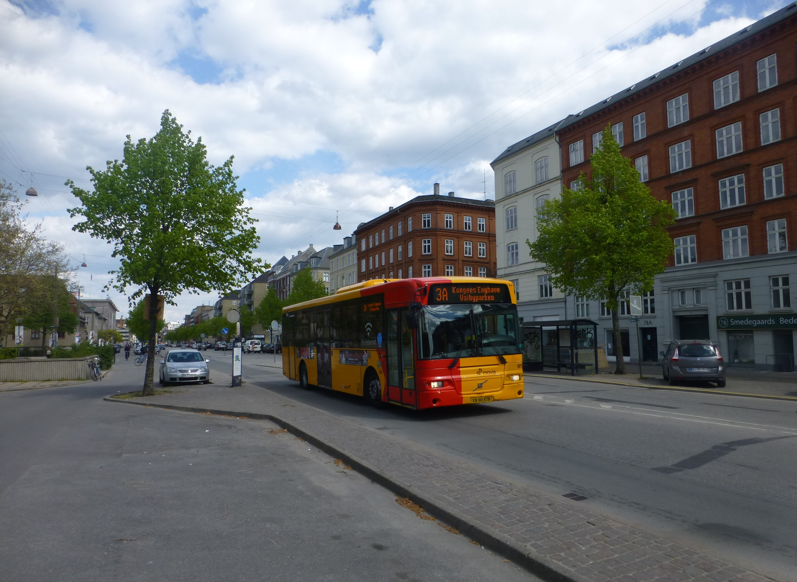 Movia bus line 3A on Blegdamsvej in Østerbro in Copenhagen.